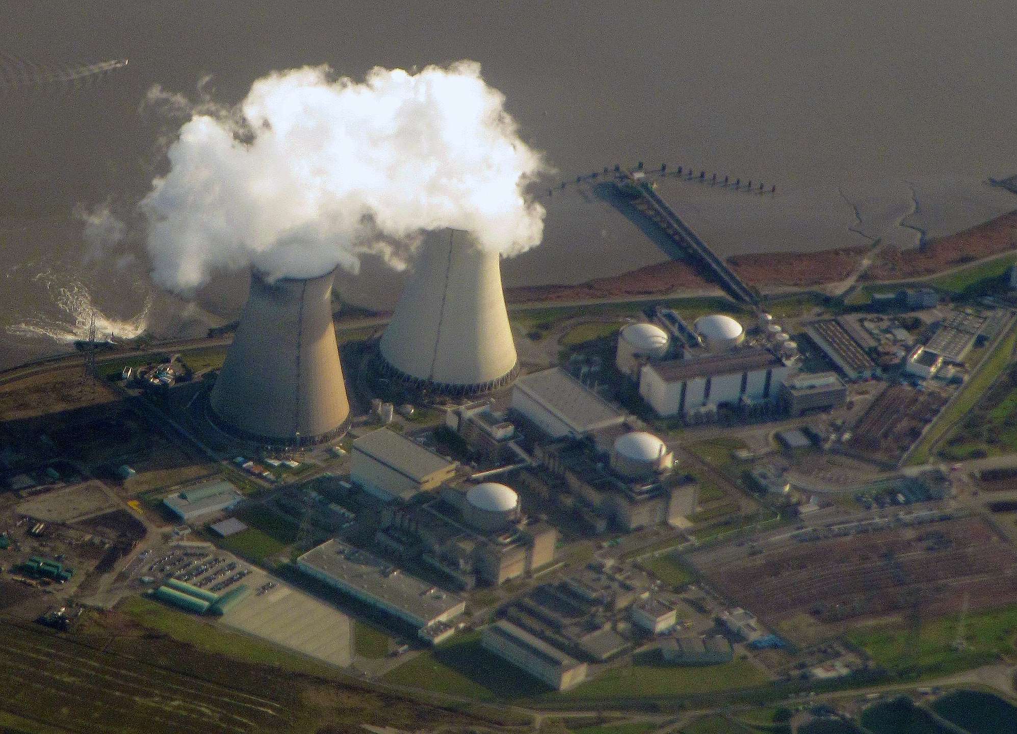 Nuclear power plant, Doel